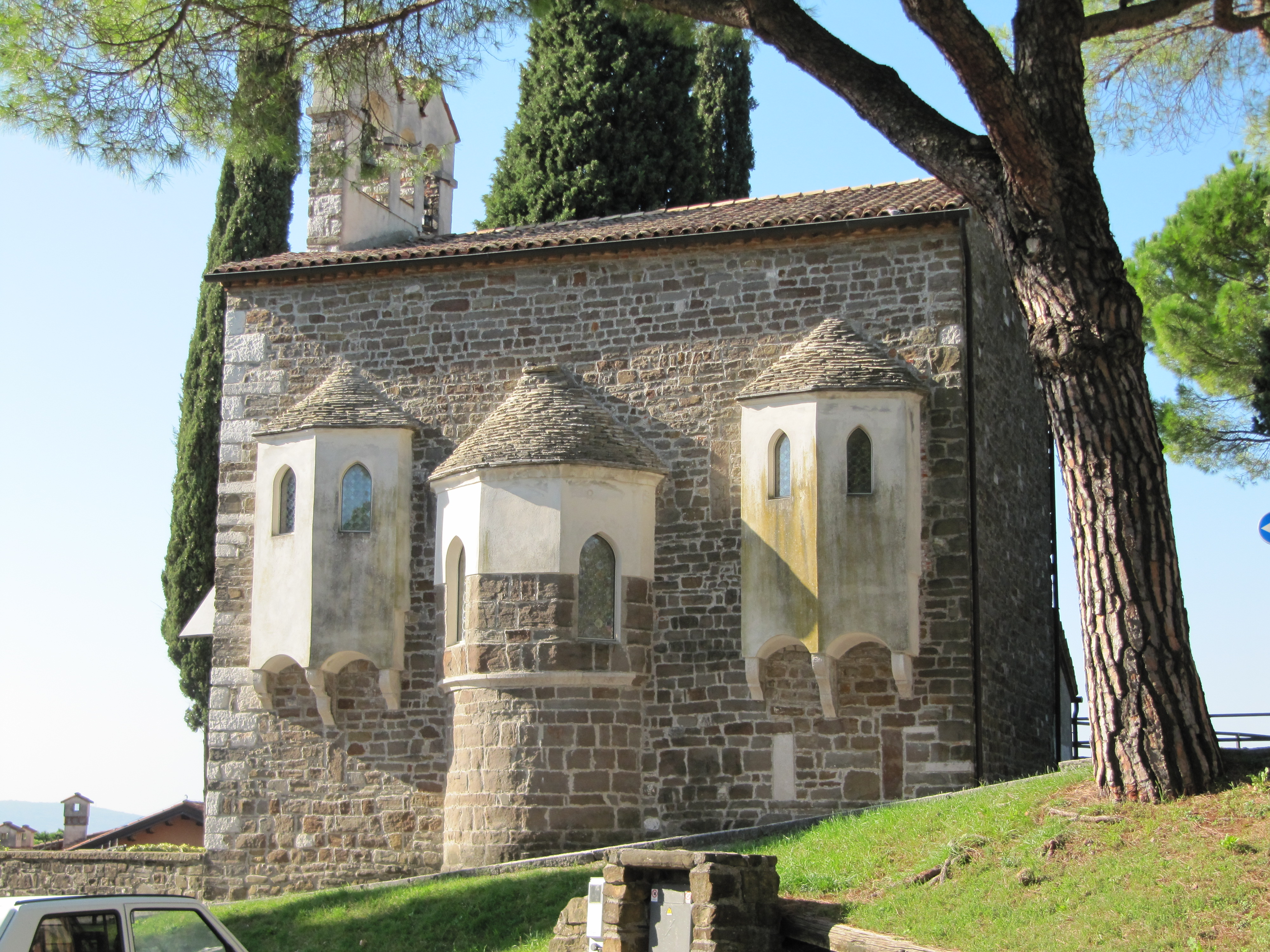 Chapel of the Holy Spirit, Gorizia (Italy)